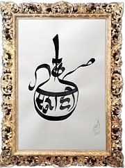 Word Surahi ( pitcher ) is written in two different scripts Devanagri and Nastalique used for Hindi-Urdu in unison. This art for promotion of peace and collaboration in South Asia is called Samrup Rachna calligraphy